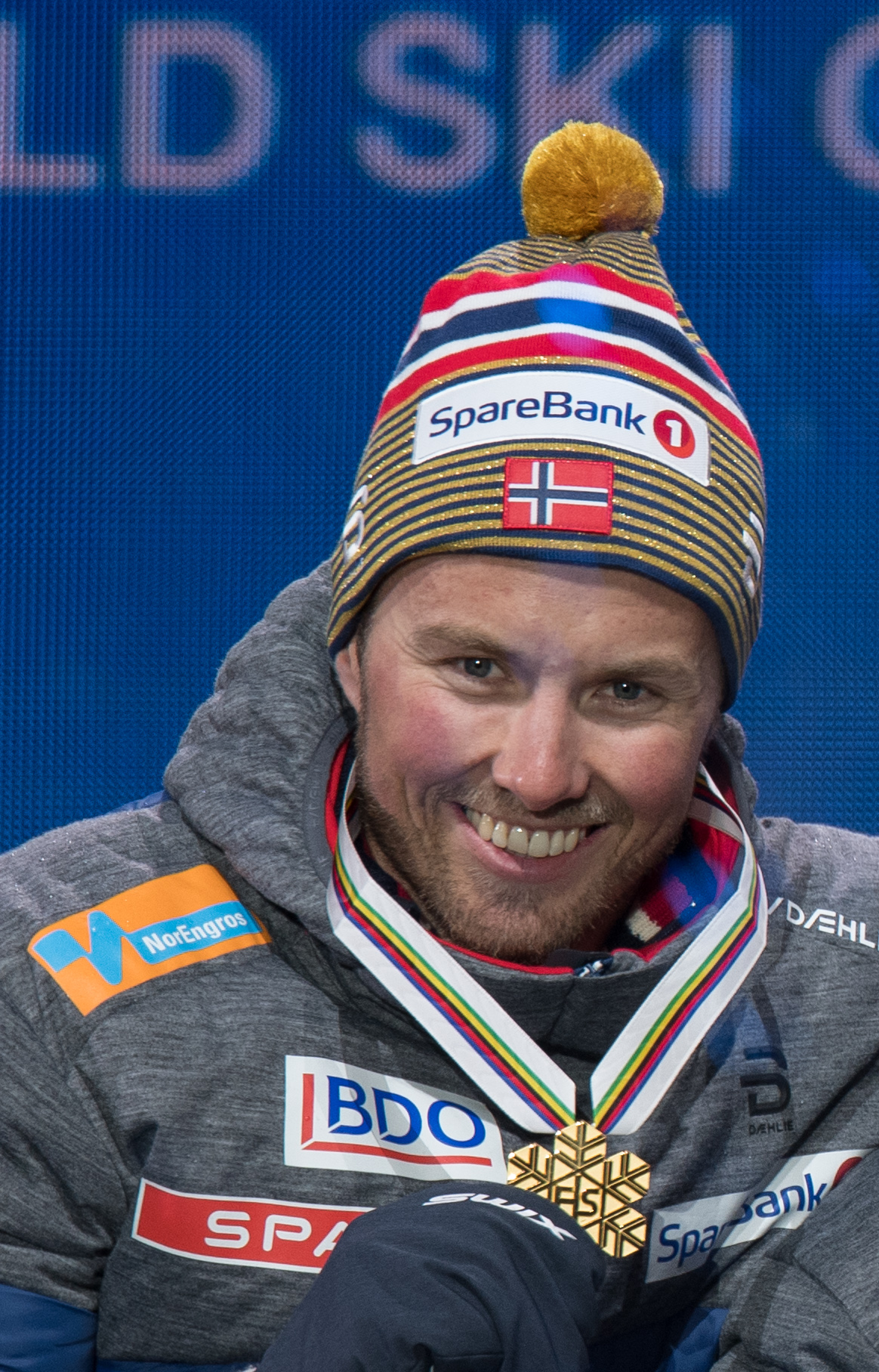 FIS Nordic World Ski Championships Seefeld 2019 - Medal Ceremony at the Medal Plaza. Picture shows Emil Iversen (NOR).